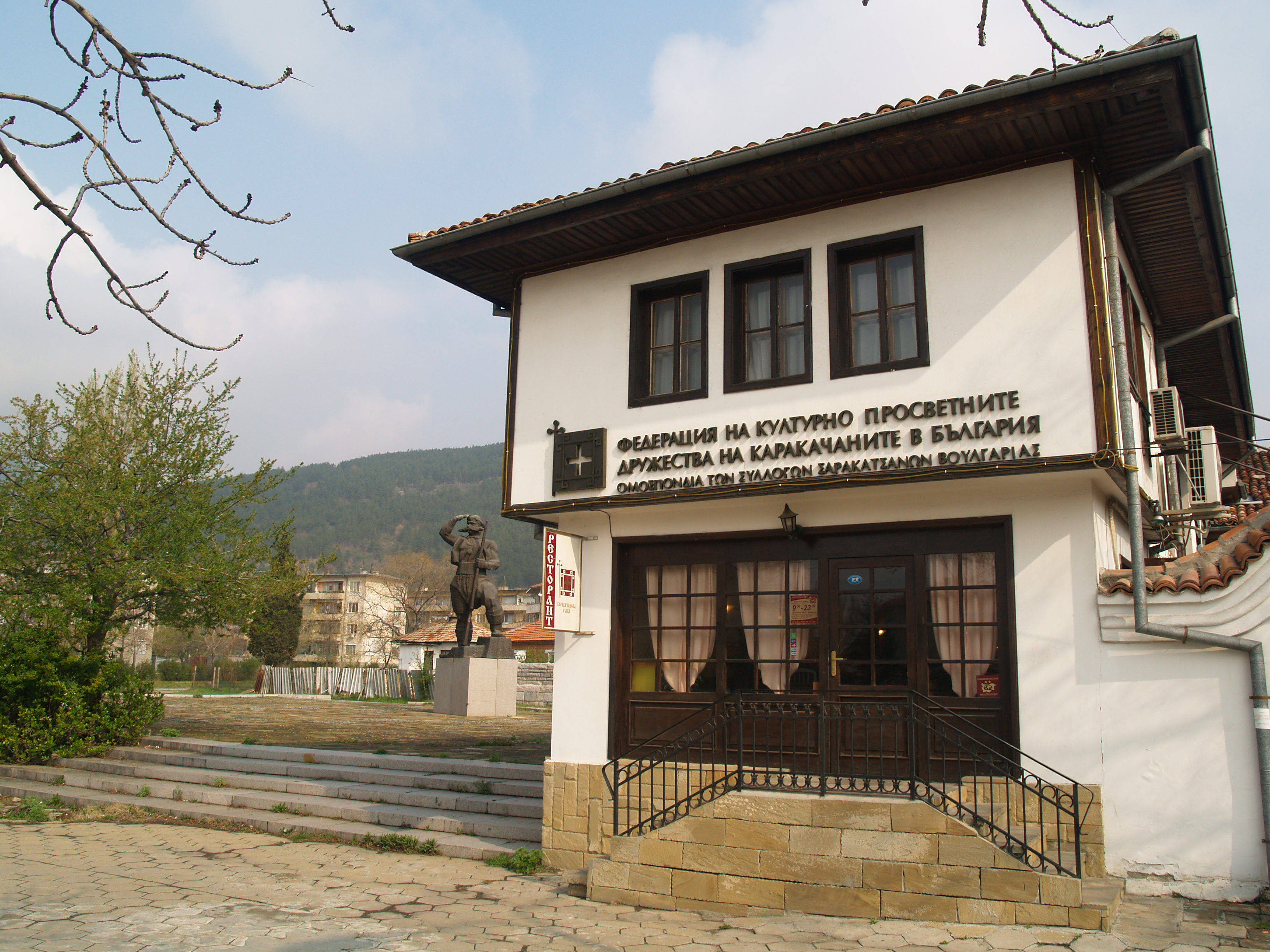 Karakatsani Federation in Sliven, Bulgaria